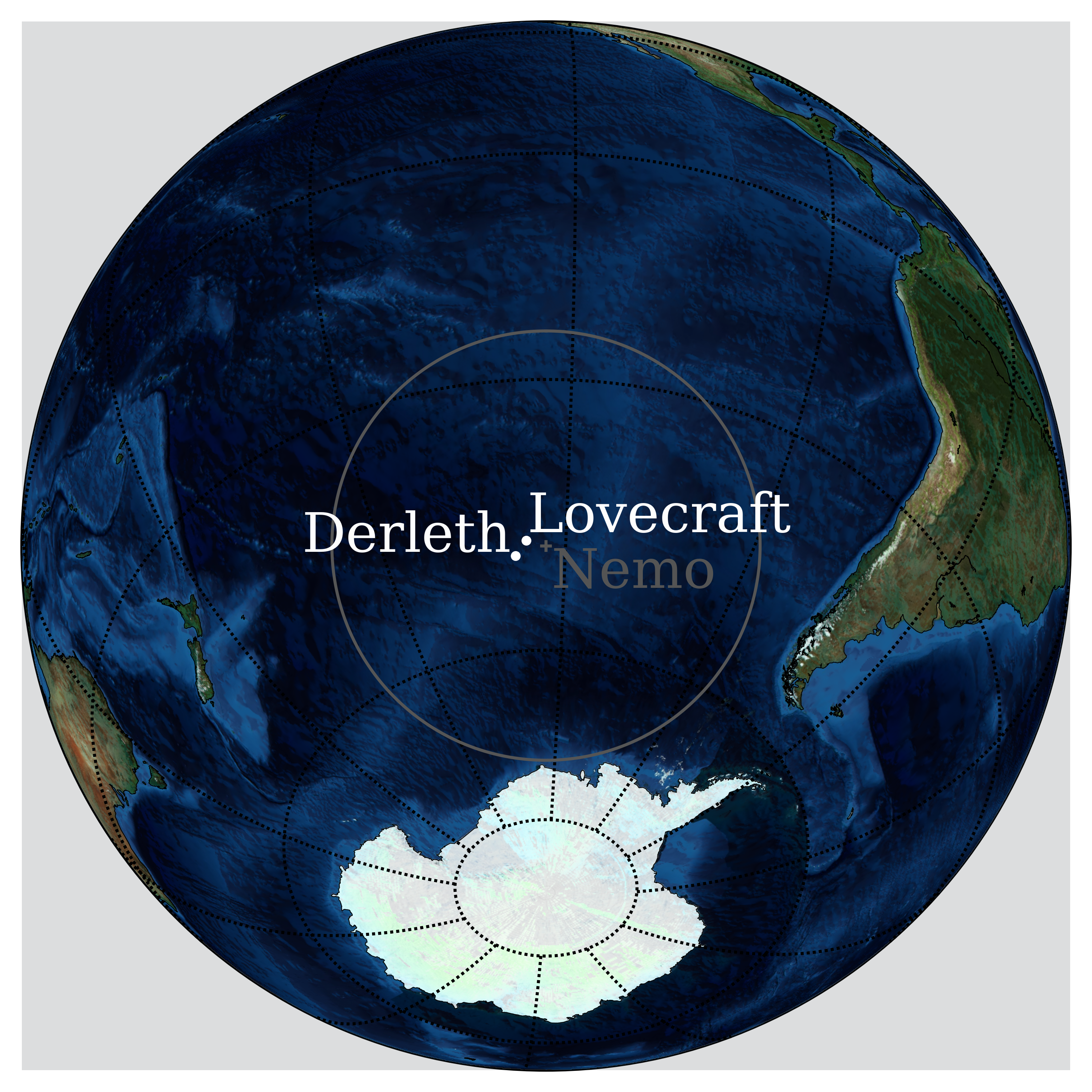 Locations of R'Lyeh, a fictional city that appeared in the writings of H. P. Lovecraft (†1937). Lovecraft claims R'lyeh is located at 47°9′S 126°43′W in the southern Pacific Ocean. While August Derleth, a contemporary correspondent of Lovecraft and co-creator of the Cthulhu Mythos, placed R'lyeh at 49°51′S 128°34′W. Both locations are close to the Pacific pole of inaccessibility (the "Nemo" point, 48°52.6′S 123°23.6′W), a point in the ocean farthest from any land mass.